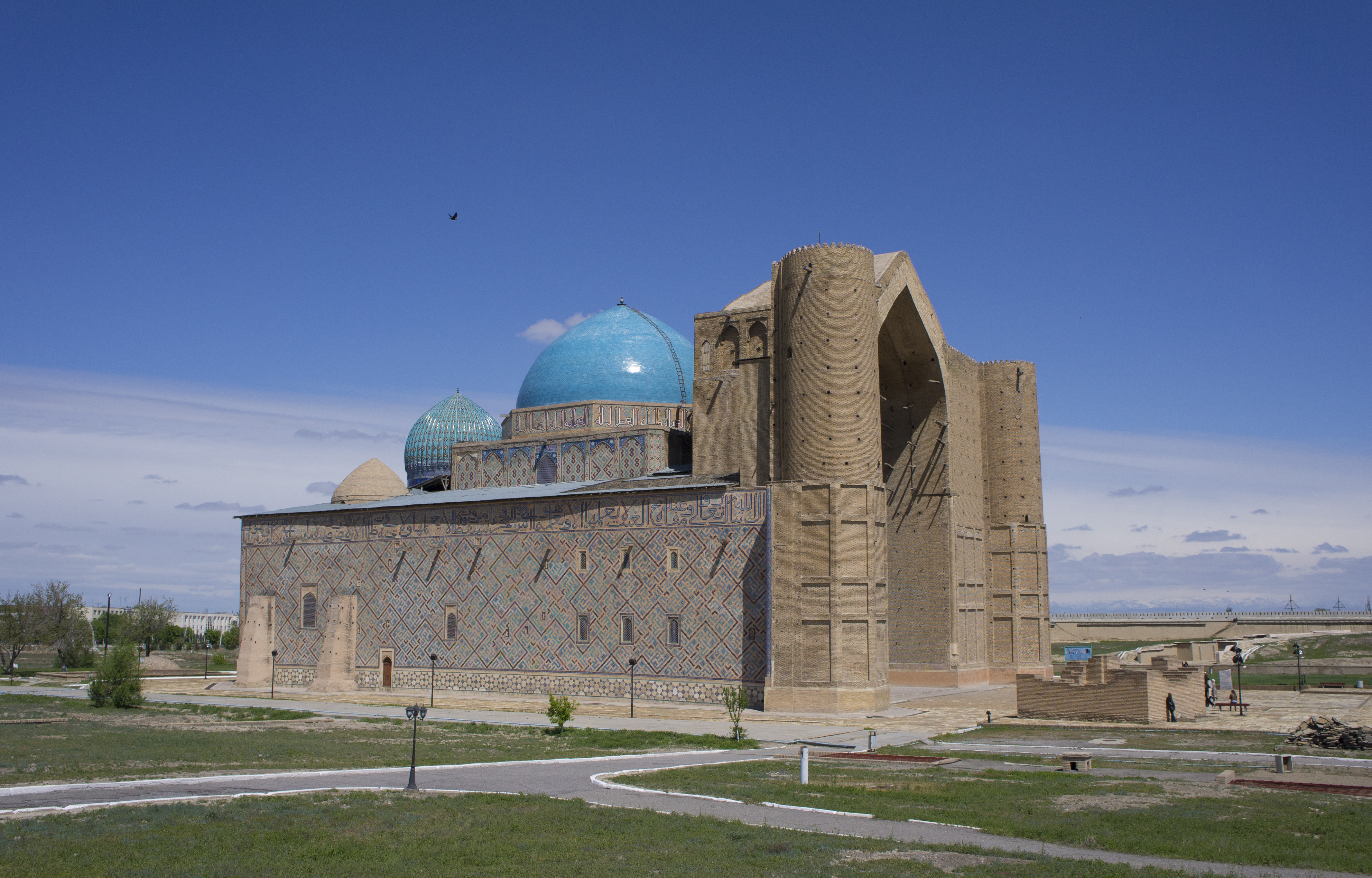 Mausoleum to Koja Ahmad Yassaui (UNESCO World heritage site), Turkistan, Kazakhstan. Prime example of Timurid arhcitecture.